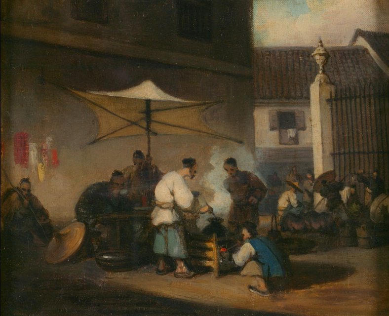 Street Scene, Macao, with Pigs